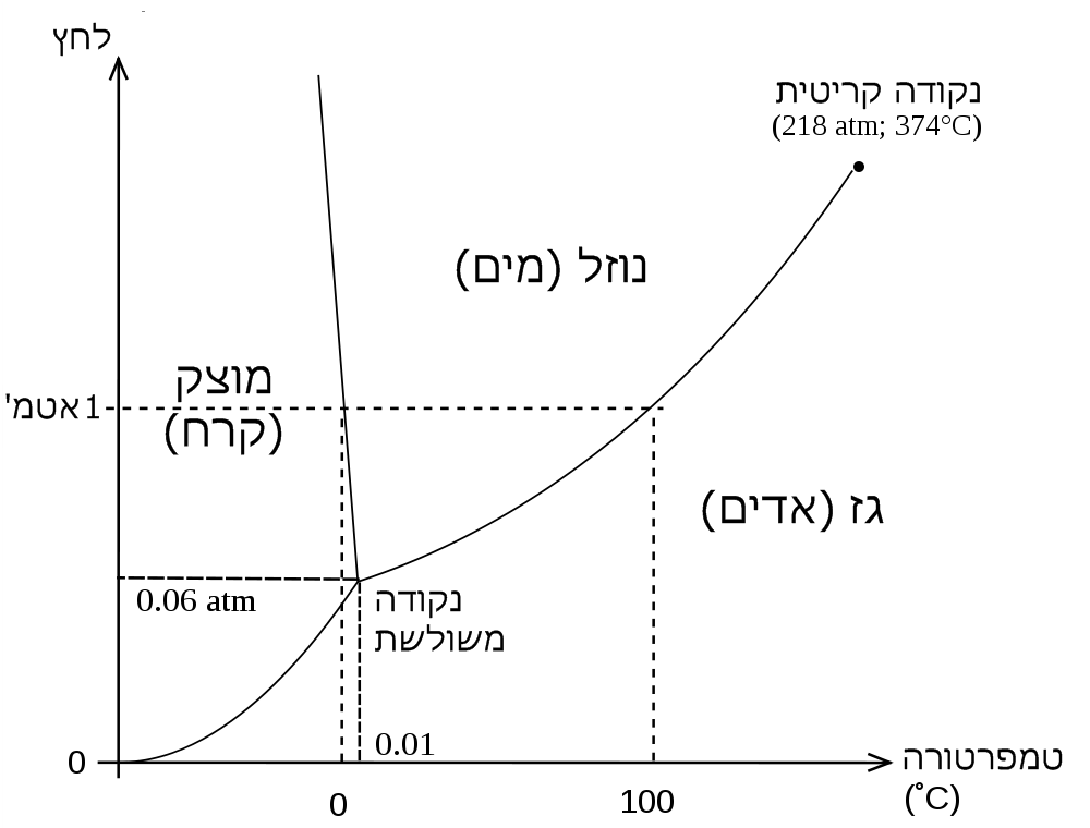 Phase diagram of water